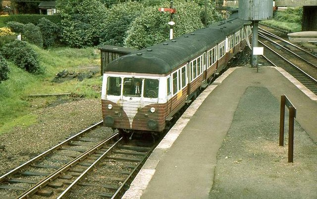 Delayed train, Lisburn